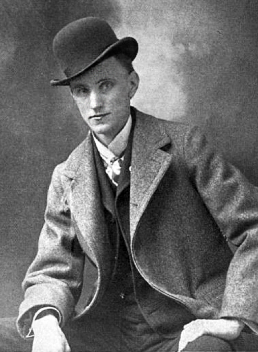 Howard Llewellyn Swisher (September 21, 1870 – August 27, 1945) was an American businessperson, real estate developer, orchardist, and historian in the U.S. state of West Virginia. Portrait of Howard Llewellyn Swisher from: * Swisher, Howard Llewellyn (1899) Briar Blossoms: Being a Collection of a Few Verses and Some Prose, Morgantown, West Virginia: Acme Publishing Company OCLC: 10537445.